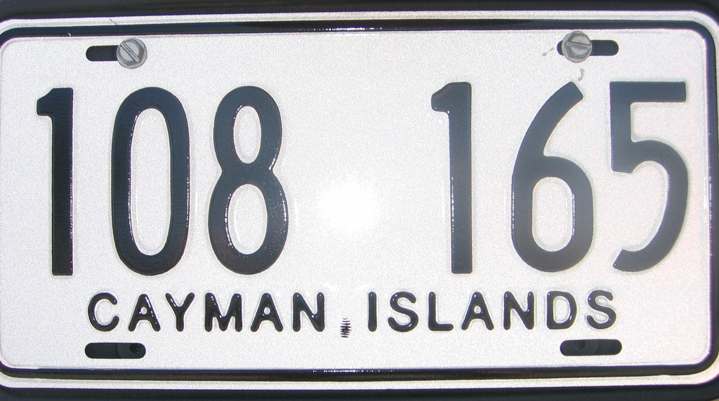 License plate for rental vehicles from the Cayman Islands